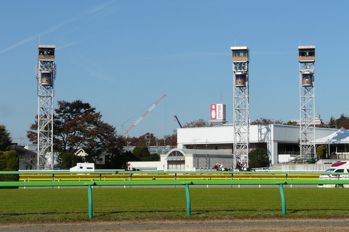 Tokyo-Racecourse-04